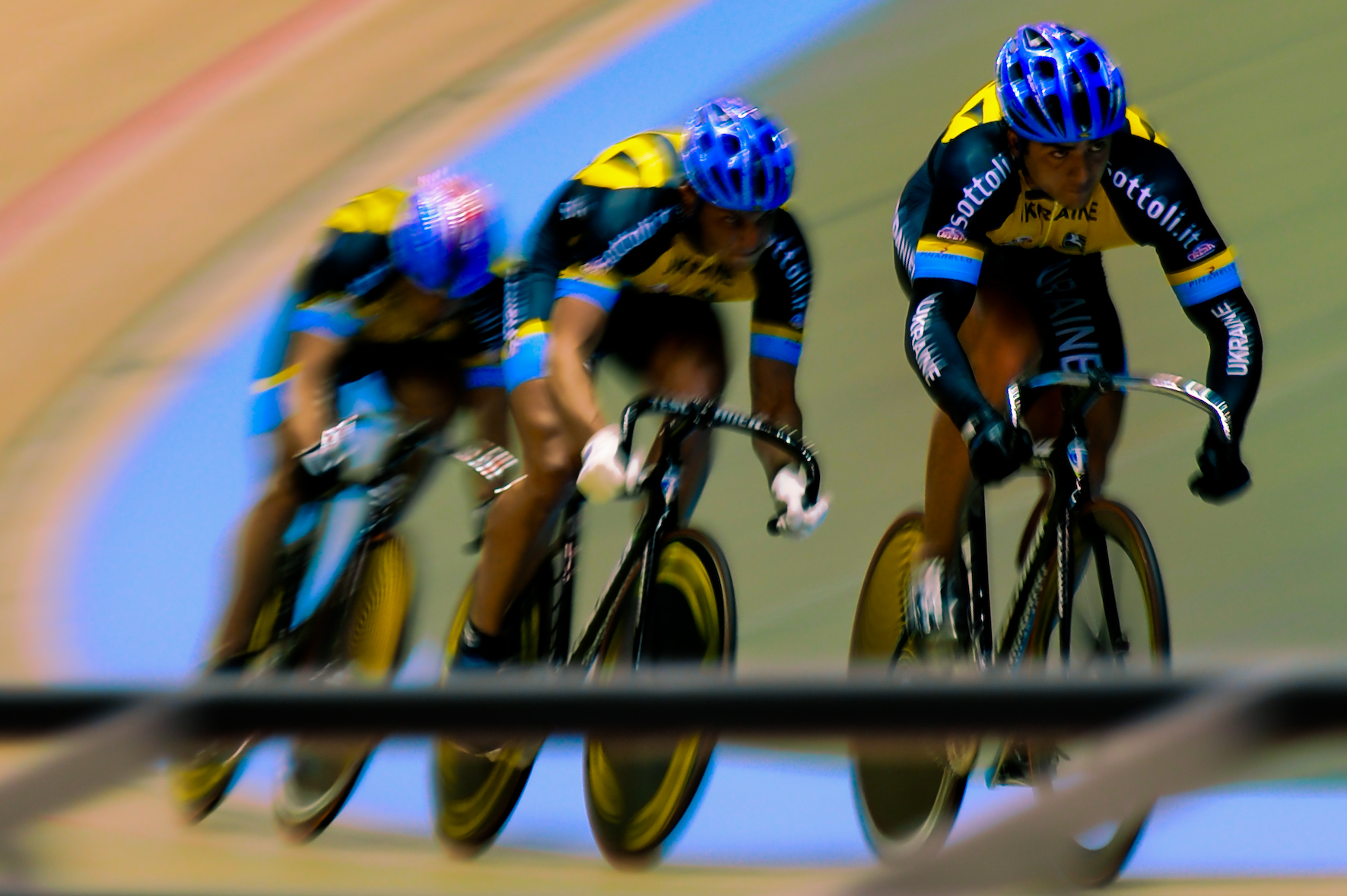 Ukraine Team Sprint qualifying - UCI Track Cycling World Championships 2008 - Manchester Velodrome